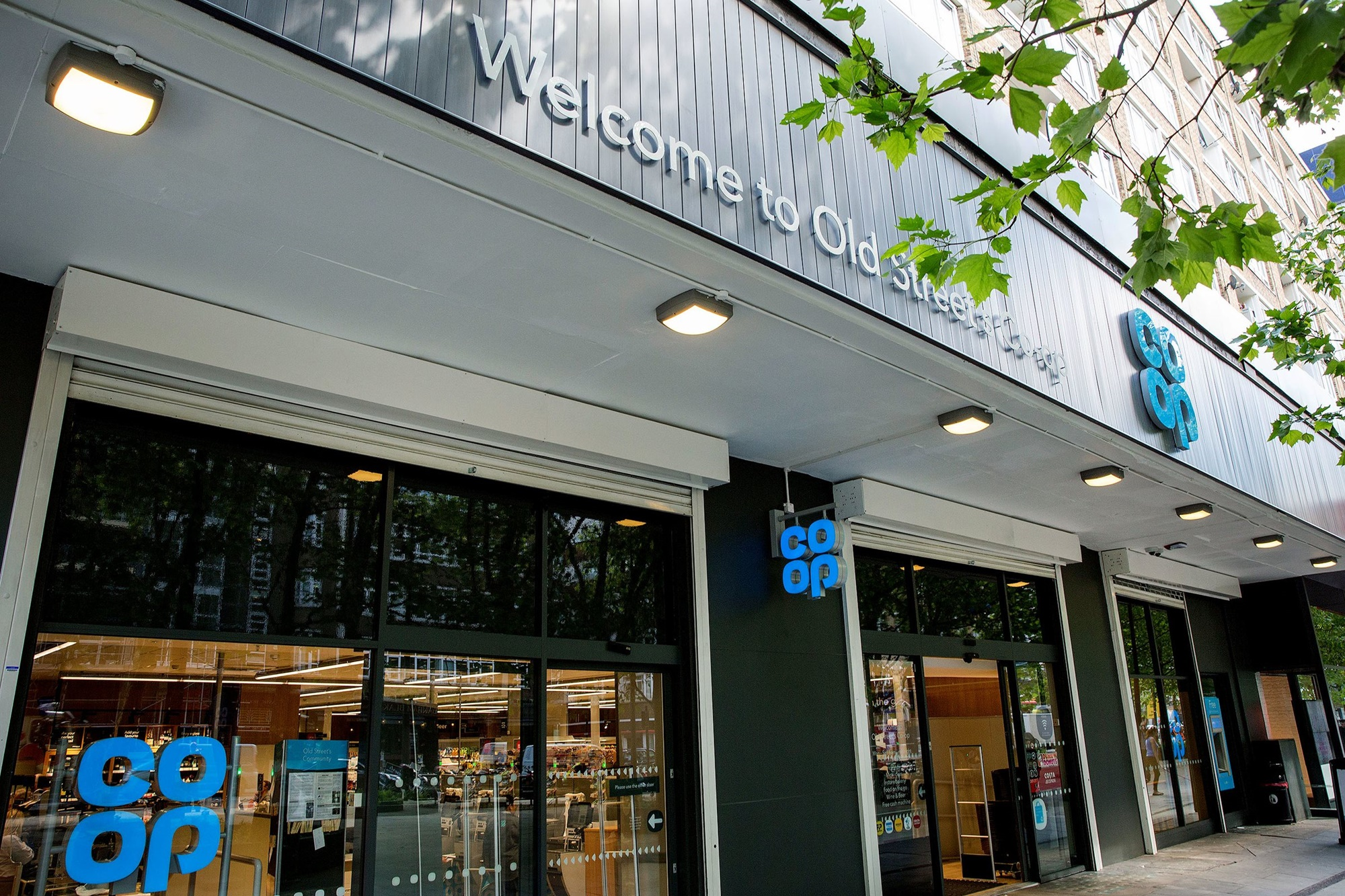 Co-op Shoreditch Store